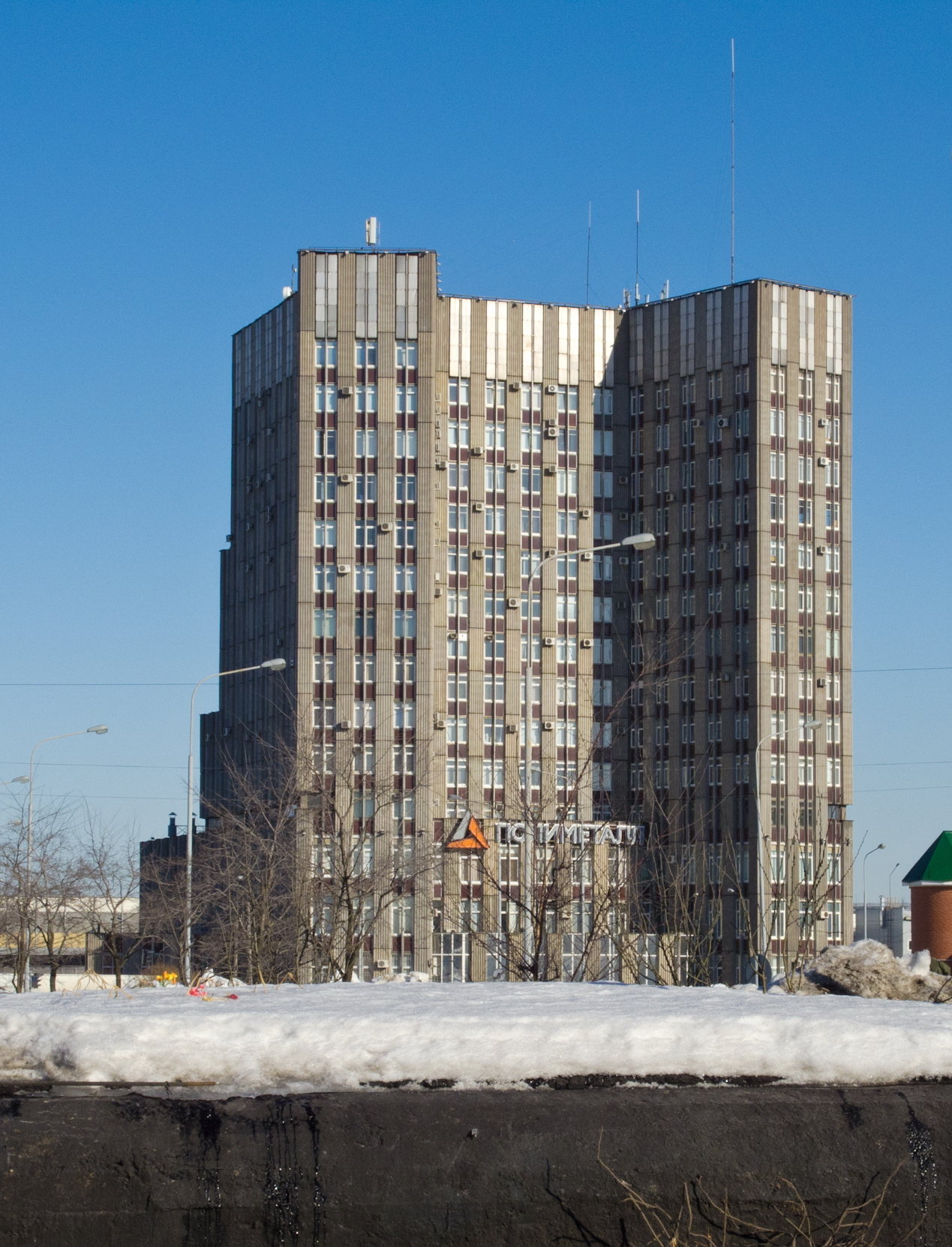 Main building of the Research and Development Institute of Halurgy in Saint Petersburg, Russia